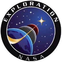 The Insignia for NASA's Office of Exploration Systems